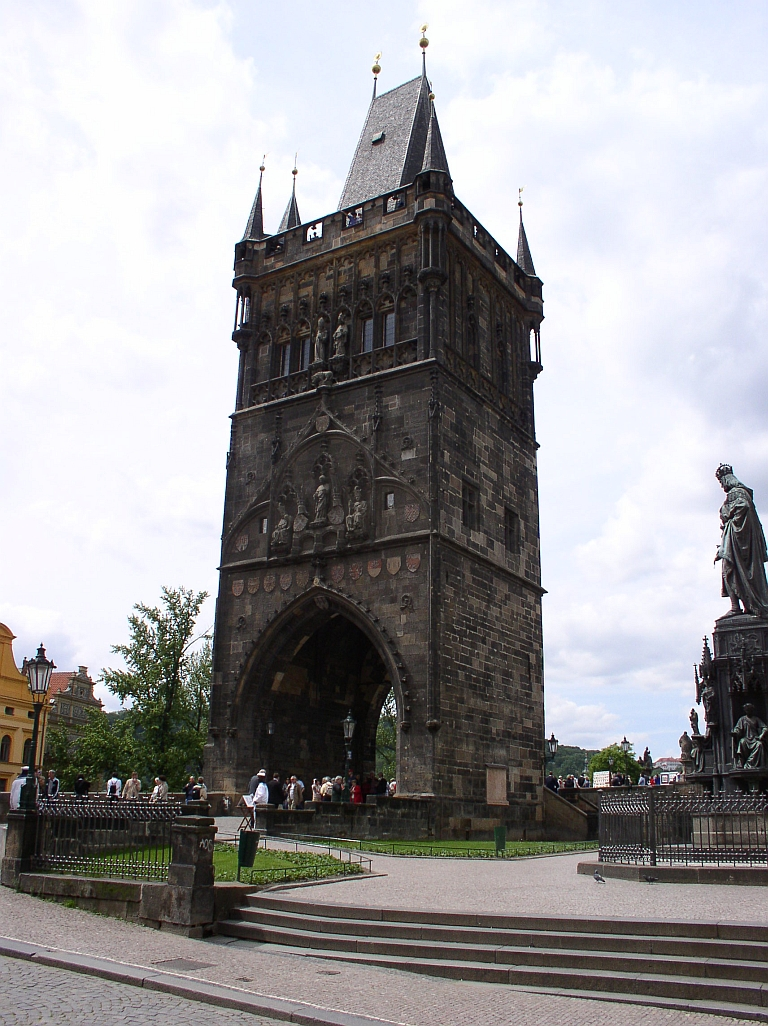 Old Town Tower of Charles Bridge, Prague, Czech Republic